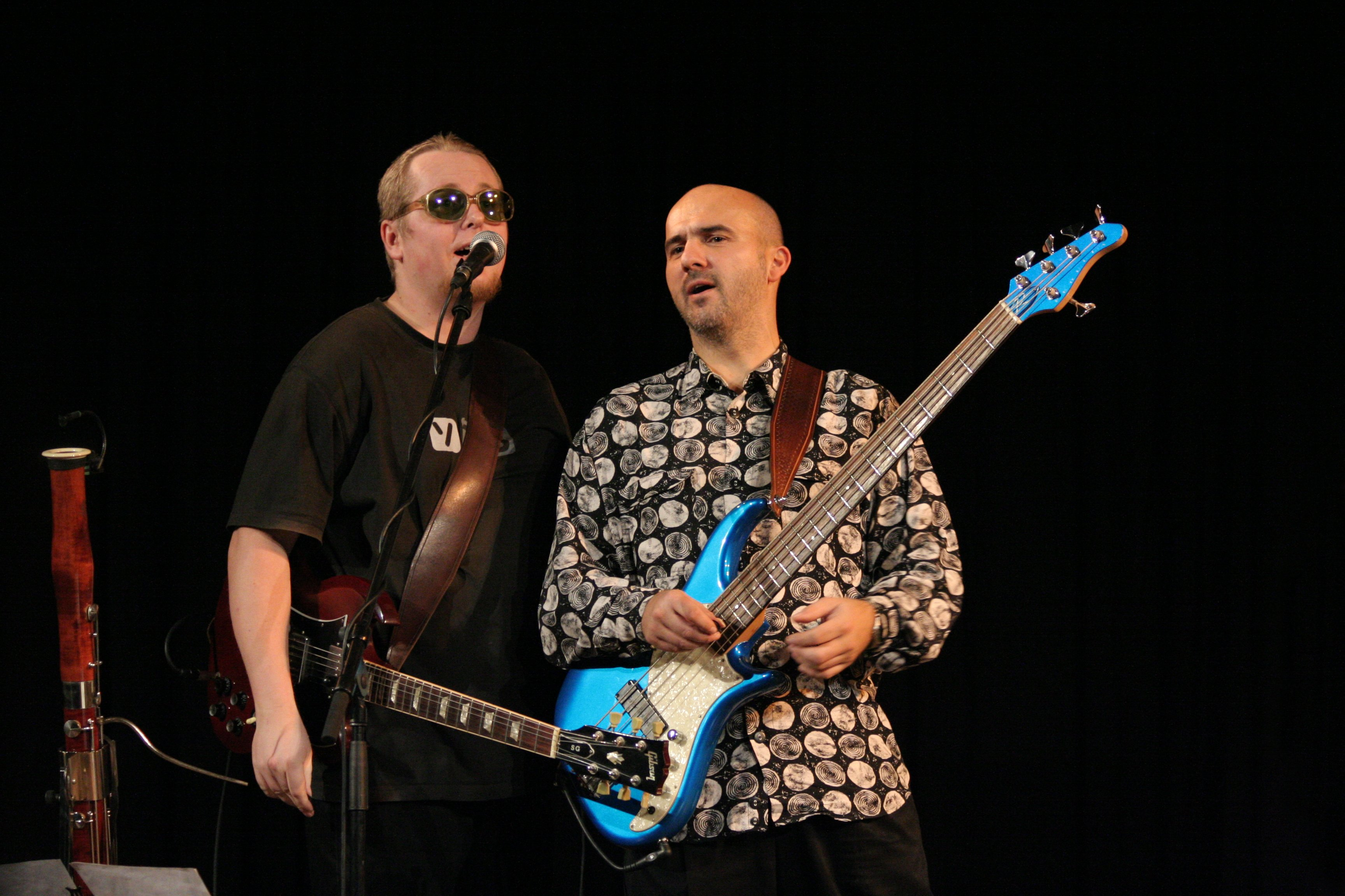 Johnny Jůdl and Martin Carvan, Jablkoň concert at Municipal library of Prague